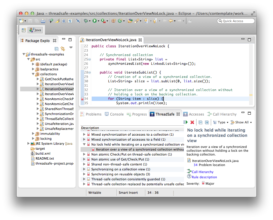 Screenshot for ThreadSafe Eclipse plug-in